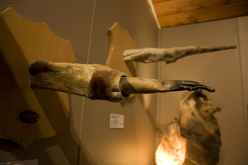 Two stuffed whale phalli, on display at the Icelandic Phallological Museum in Reykjavík, Iceland.